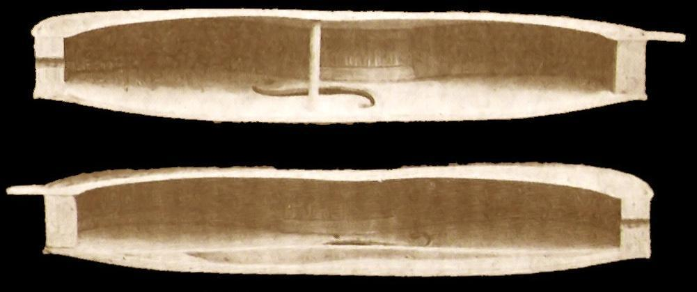 Violin bout : cross section